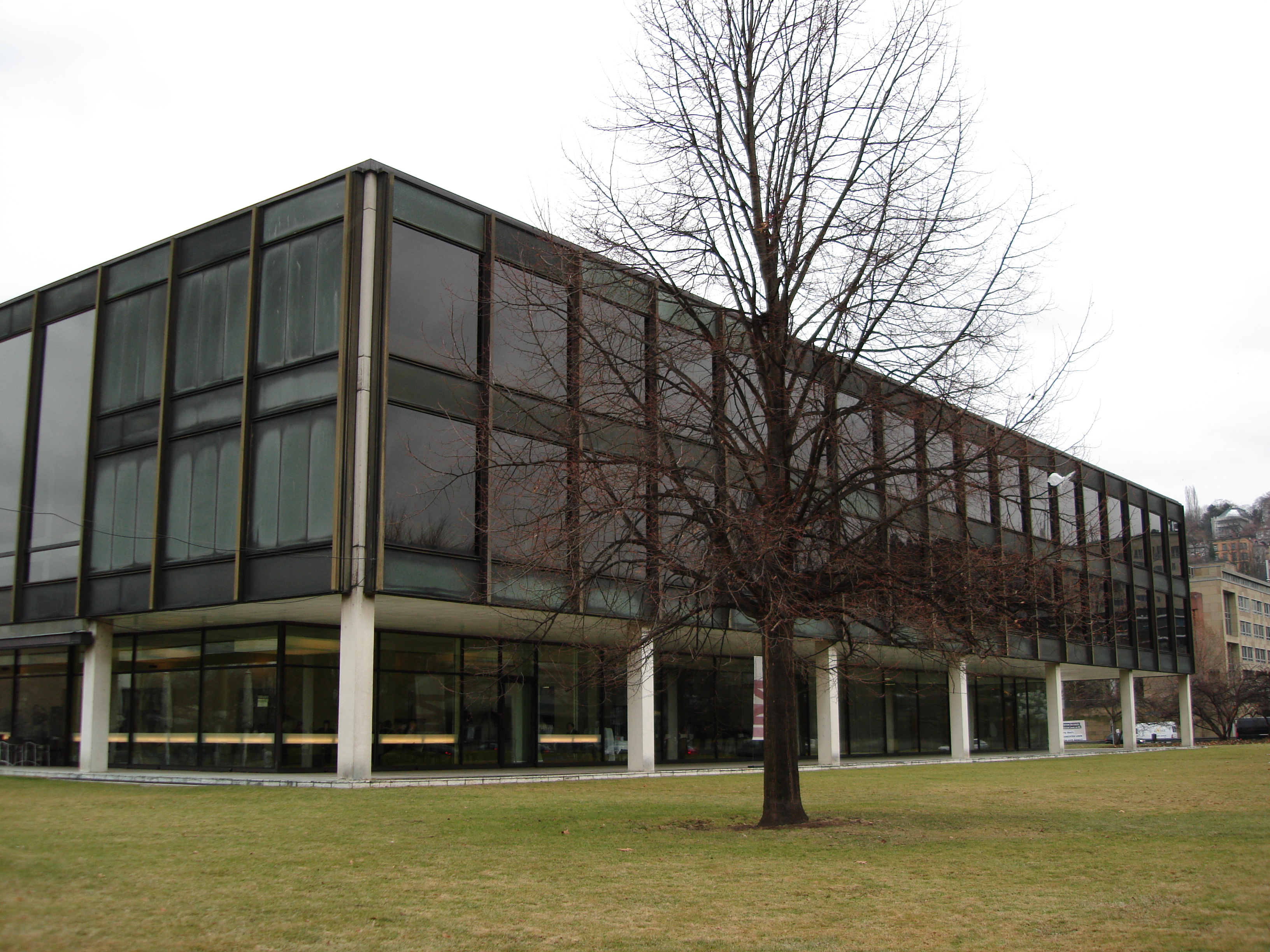 Parliament of Baden-Württemberg in Stuttgart